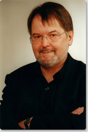 Rainer_Probst_(1941–2004)